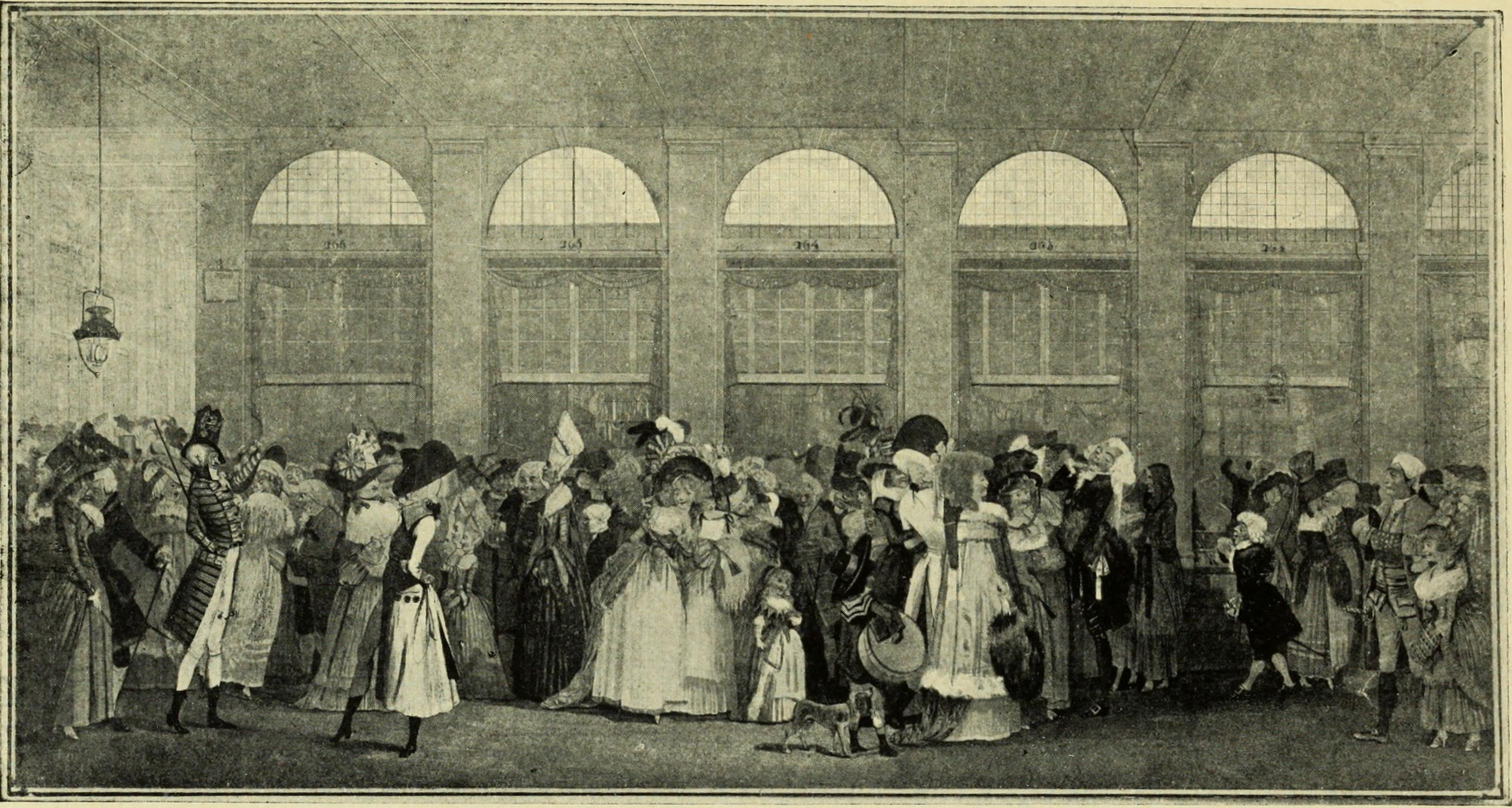 Title: Fragonard, Moreau le jeune and French engravers, etchers, and illustrators of the later XVIII century Year: 1912 (1910s) Authors: Hind, Arthur Mayger, 1880-1957 Subjects: Fragonard, Jean-Honoré, 1732-1806 Moreau, Jean Michel, 1741-1814 Publisher: New York : Fredk. A. Stokes Co. Text Appearing Before Image: LXI. PHILIBERT LOUIS DEBUCOURT. LA PROMENADE DE LAGALERIE DU PALAIS ROYAL, 1787. ORIGINAL AQUATINTP. L. Debucourt, etcher in aquatint, crayon and mezzotint engraver ;b. 1755 ; d. 1832 ; w. in Paris Text Appearing After Image: LXII. PHILIBERT LOUIS DEBUCOURT. LA PROMENADE PUB-LIQUE, 1792. ORIGINAL AQUATINT. FROM A FINEIMPRESSION IN THE COLLECTION OF MR. BASIL DIGH-TON